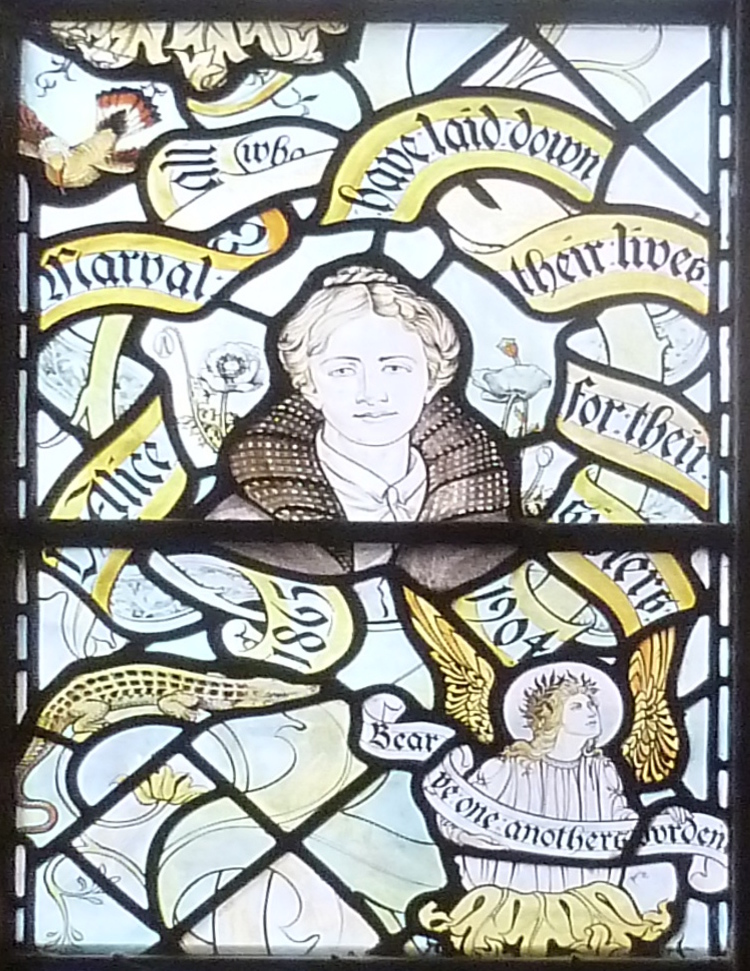 One of a set of windows on the staircase leading to the Lady Chapel in Liverpool Anglican cathedral. They commemorate the lives of 'noble women', who have made some significant contribution to the world in the service of others. The windows combine portraits of well-known heroines like Grace Darling, shown here but also honour more obscure women, who may only have been known locally or in their own time. These include, in this particular window, Mary Rogers, a stewardess who made a personal sacrifice during a shipwreck in 1899, Kitty Wilkinson, a local laundress, who set up an early wash house in Liverpool in 1842 and Agnes Jones, the first trained nurse at the local workhouse infirmary, who looked after the sick and the poor of Liverpool and herself died of typhus, caught during her nursing duties.